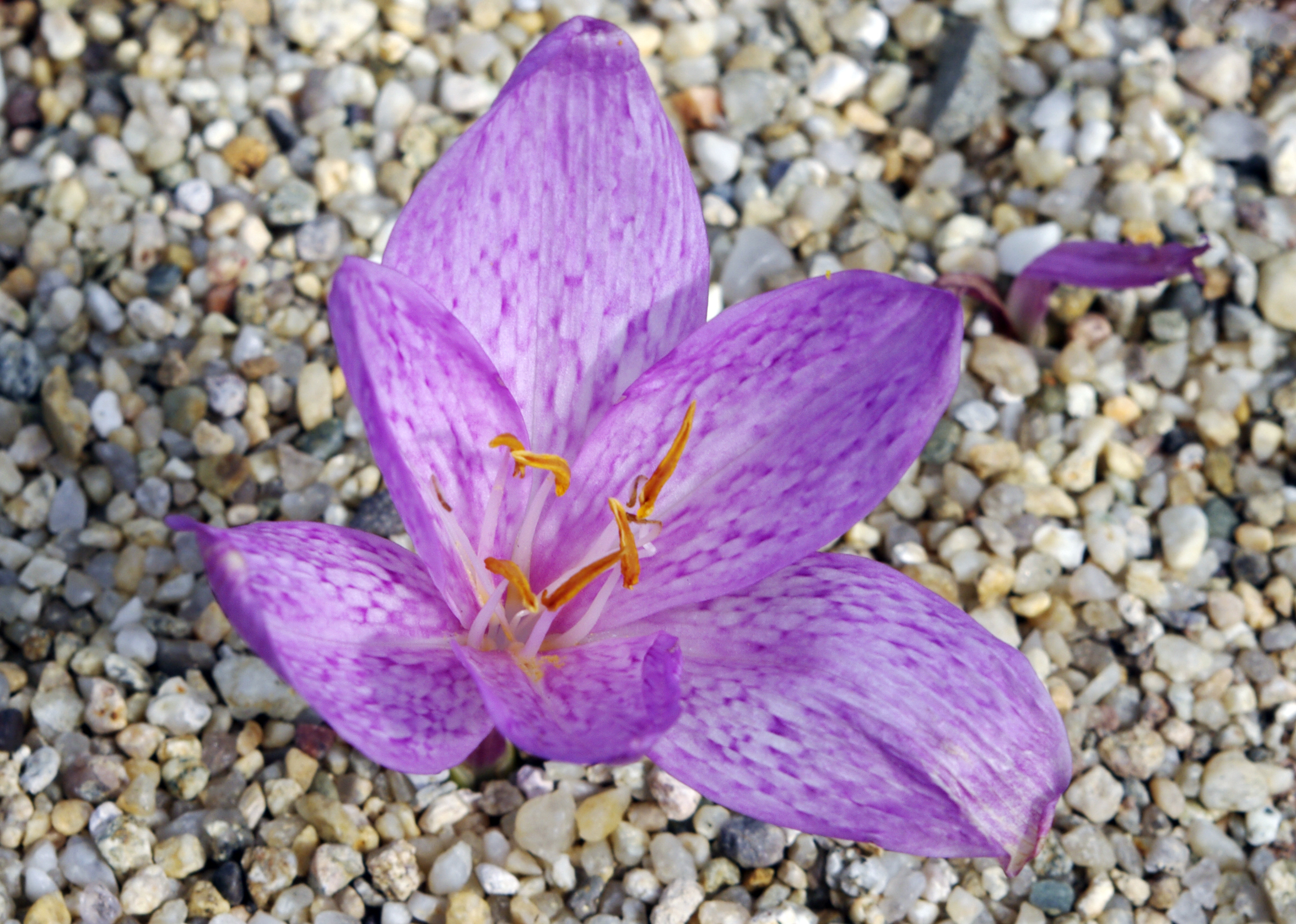 A flower of "Autumn bitter crocus" (Colchicum variegatum).